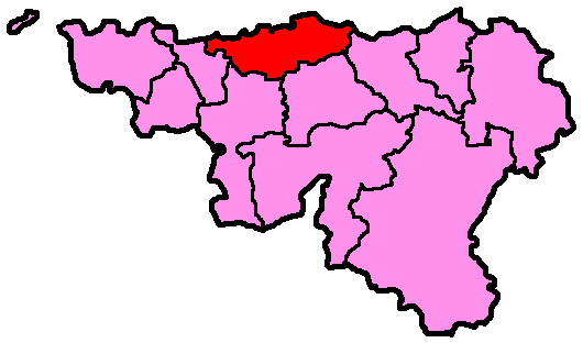 Location of the constituency of Nivelles in Wallonia